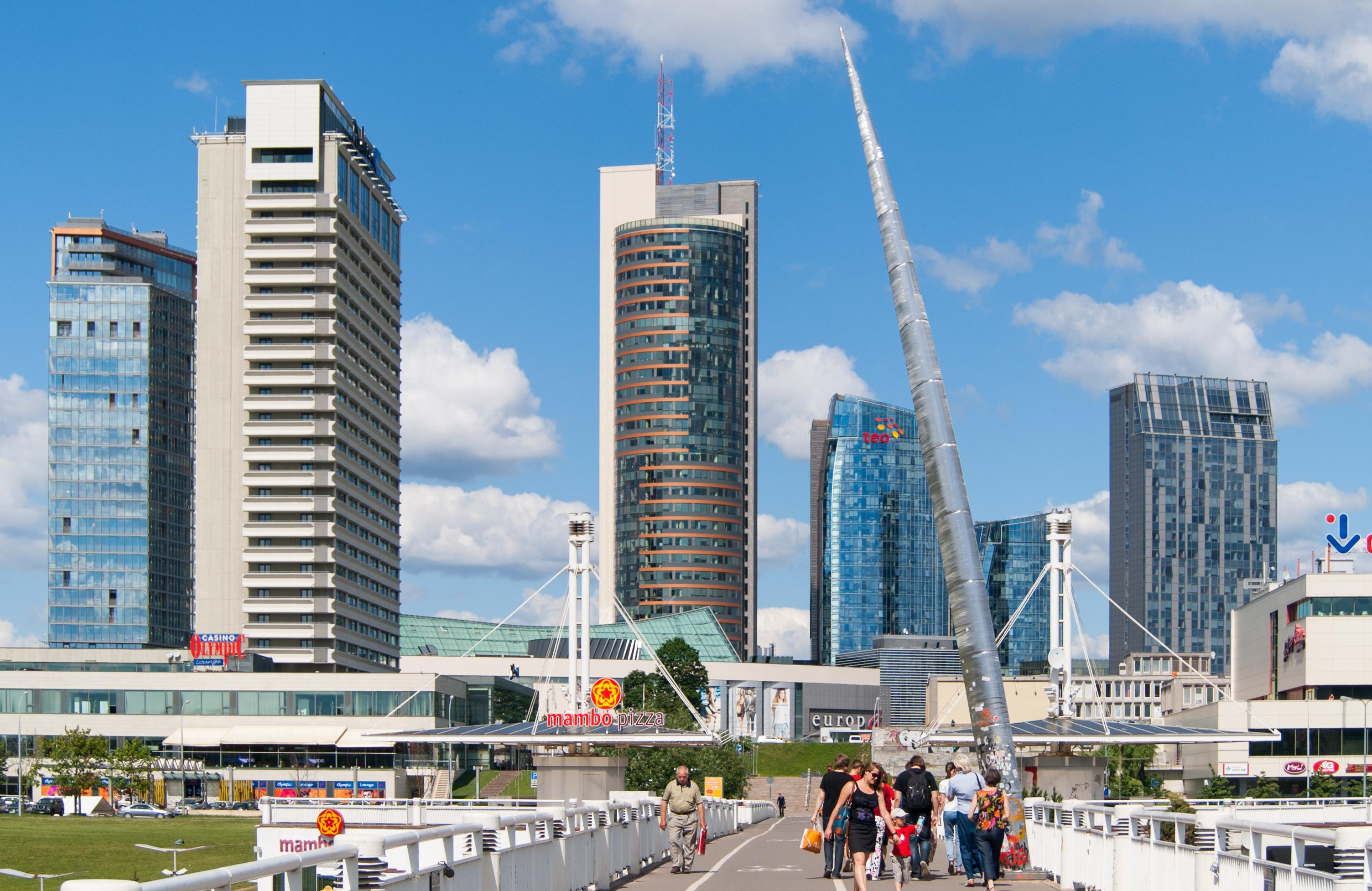 Vilnius New City Center from the White Bridge during summer.